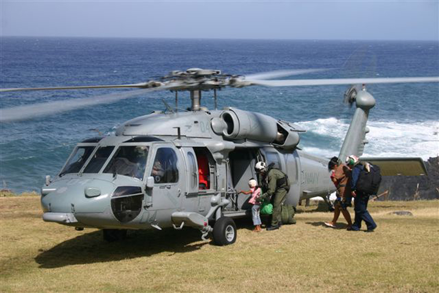 Crewmen of Helicopter Sea Combat Squadron (HSC) 25 prepare to evacuate residents of the island of Alamagan aboard an MH-60S helo following the aftermath of Supertyphoon Choi-Wan, Thursday. Residents were transported to USNS Alan Shepard (T-AKE-3), a dry cargo-ammunition ship, for immediate medical assessment before being transported to Saipan for further medical treatment as needed.